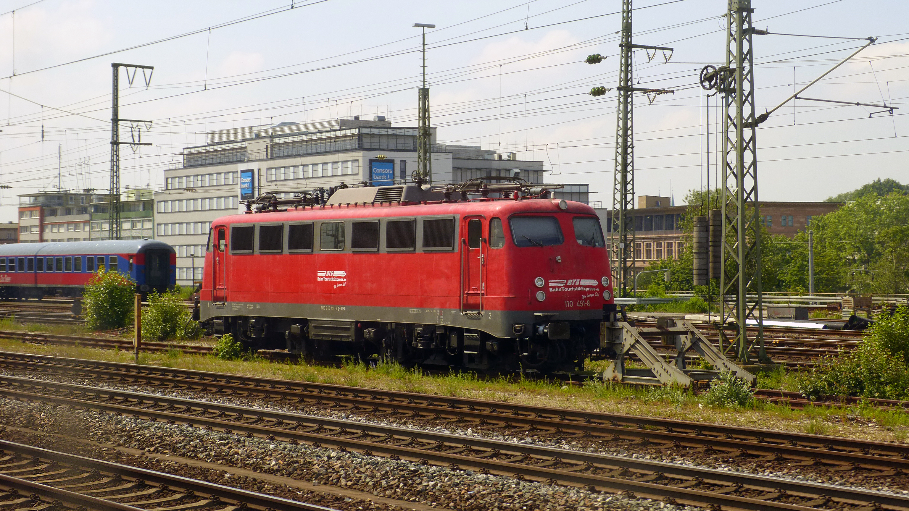 110 491 (built in 1968) railway Touristik Express (BTE) in Nuremberg Hauptbahnhof, Bavaria.